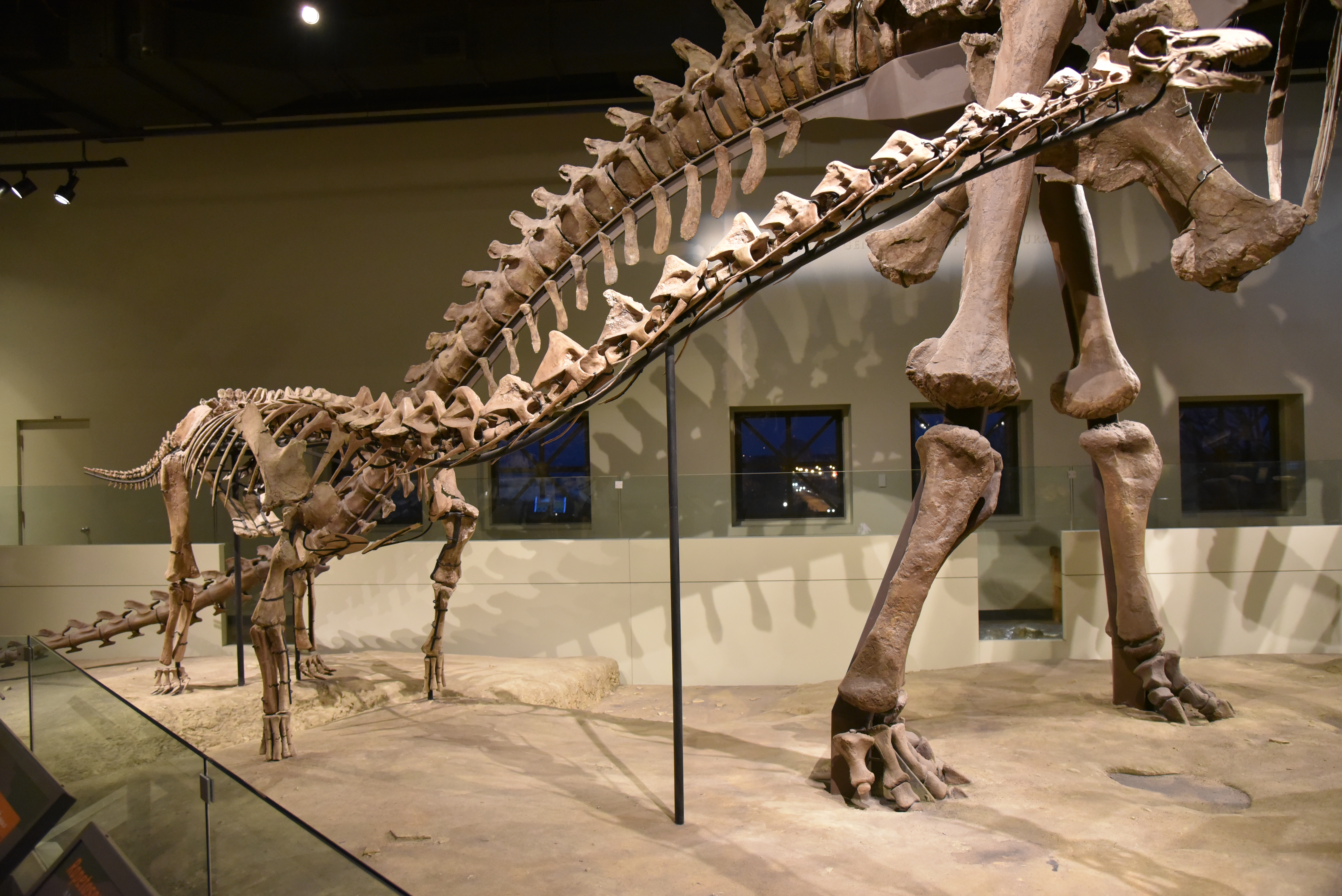 Rapetosaurus skeleton on display at the Field Museum of Natural History, Chicago, IL